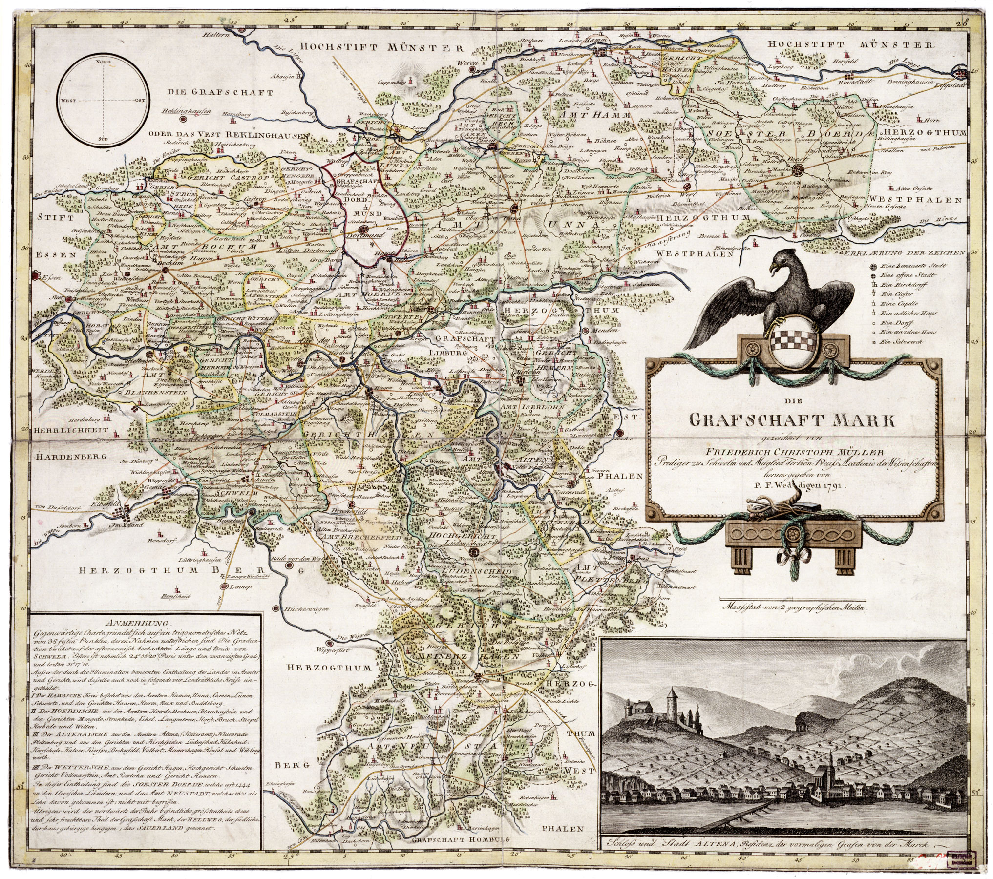 Map of Grafschaft Mark (County of Mark), Germany, 1791, by Friedrich Christoph Müller